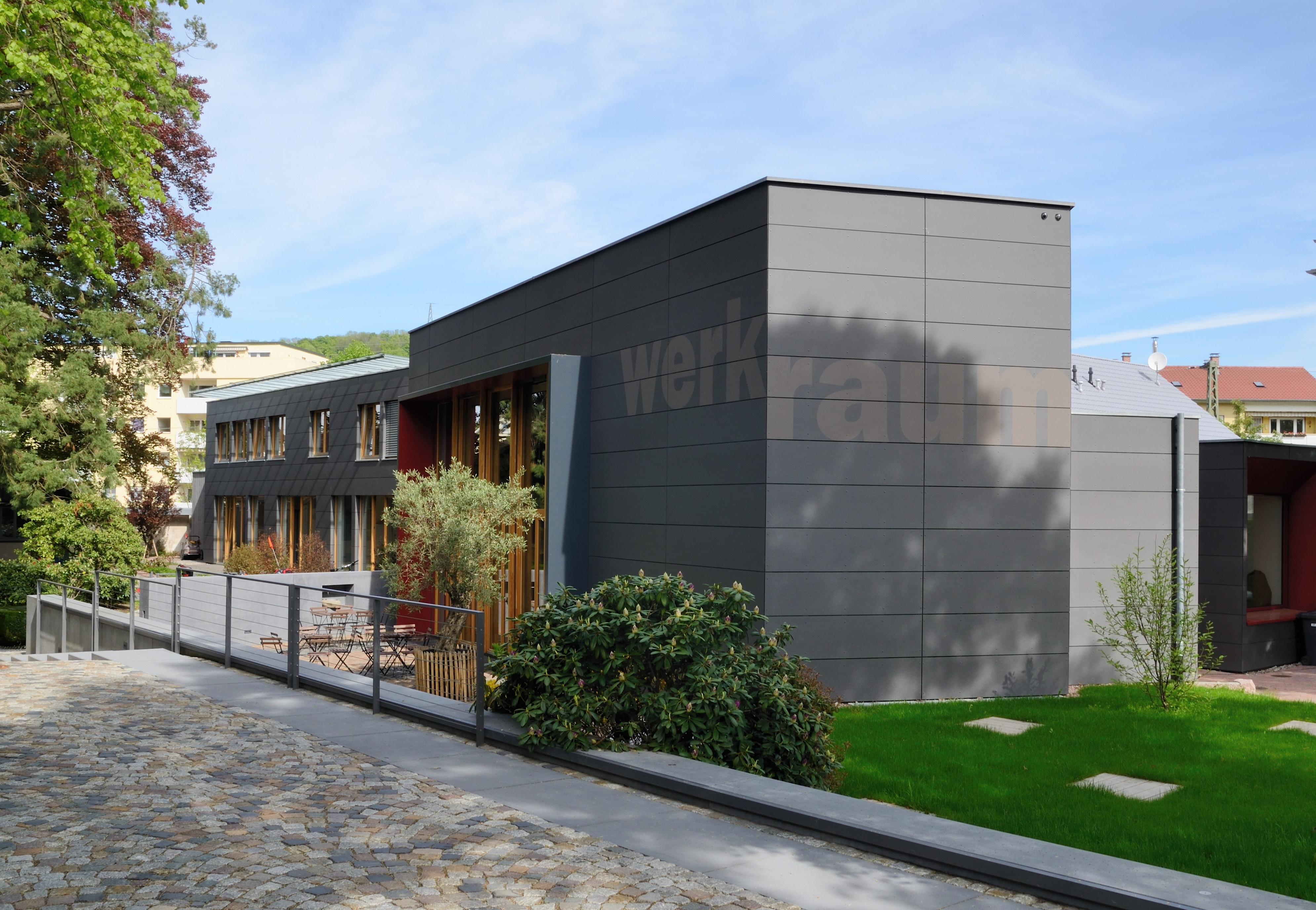 Lörrach-Brombach: Werkraum Schöpflin